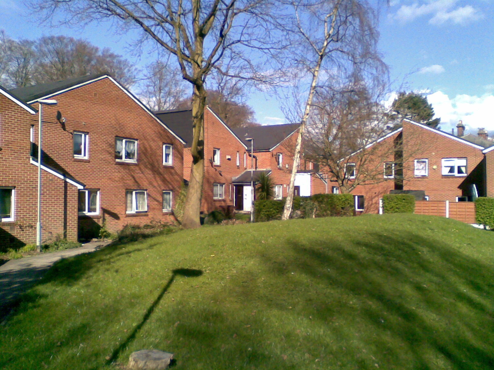 Darkwood housing estate, off Shadwell Lane, Leeds LS17, UK